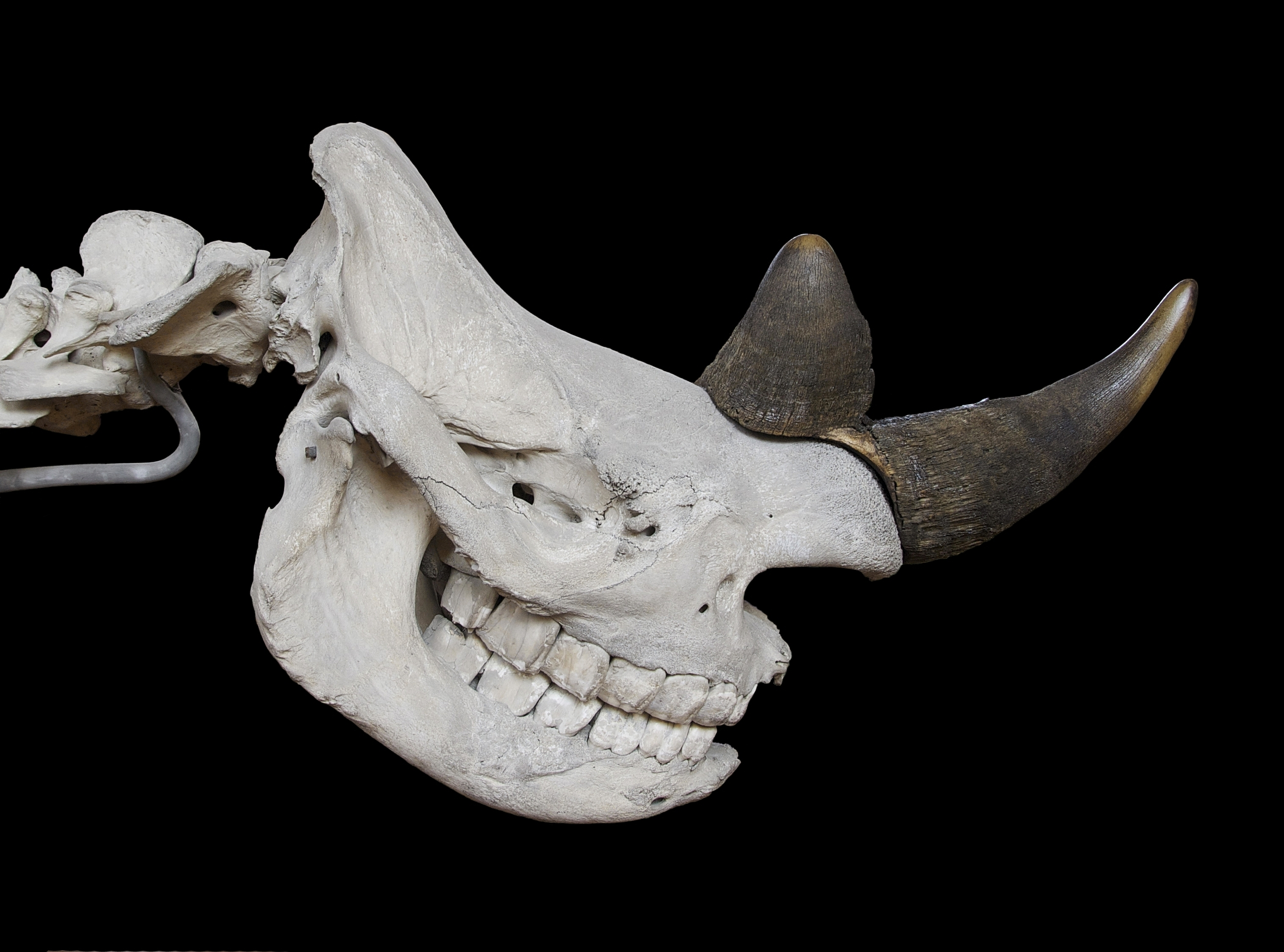 Diceros bicornis, Black Rhinoceros. Skull. Gallery of Paleontology and Compared Anatomy, National Museum of Natural History, Paris. This historic specimen (with the whole skeleton) was collected in southern Africa for the Museum by Pierre Antoine Delalande during his travel between 1818 & 1820.